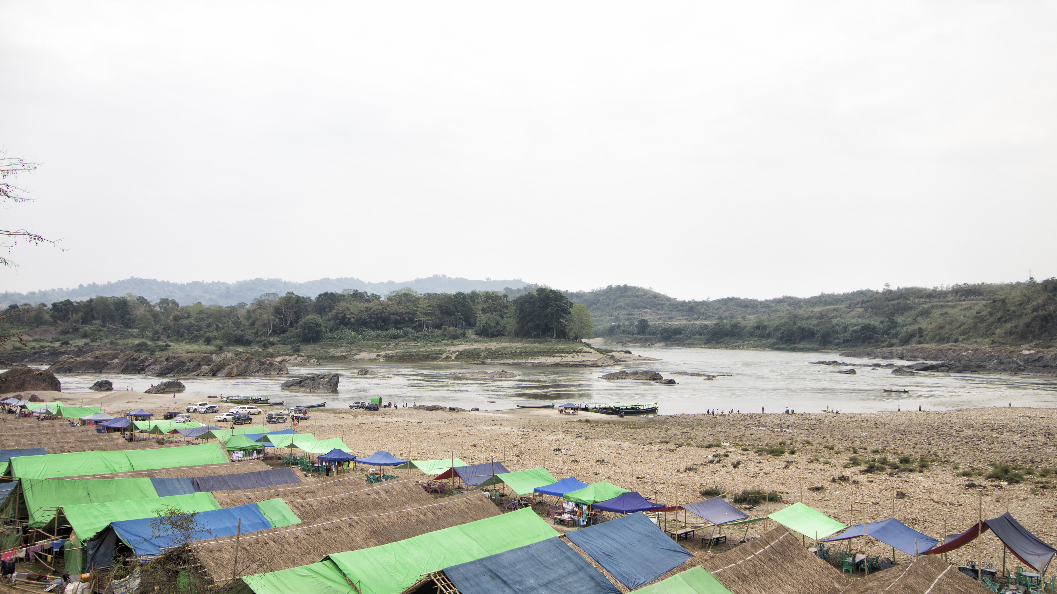 The confluence of the Mali and N'mai rivers and the source of the Irrawaddy River in northern Burma/Myanmar. မြန်မာဘာသာ: မေခမြစ်နှင့် မလိခမြစ် ပေါင်းဆုံရာ မြစ်ဆုံ၊ ကချင်ပြည်နည်၊ မြန်မာနိုင်ငံ။